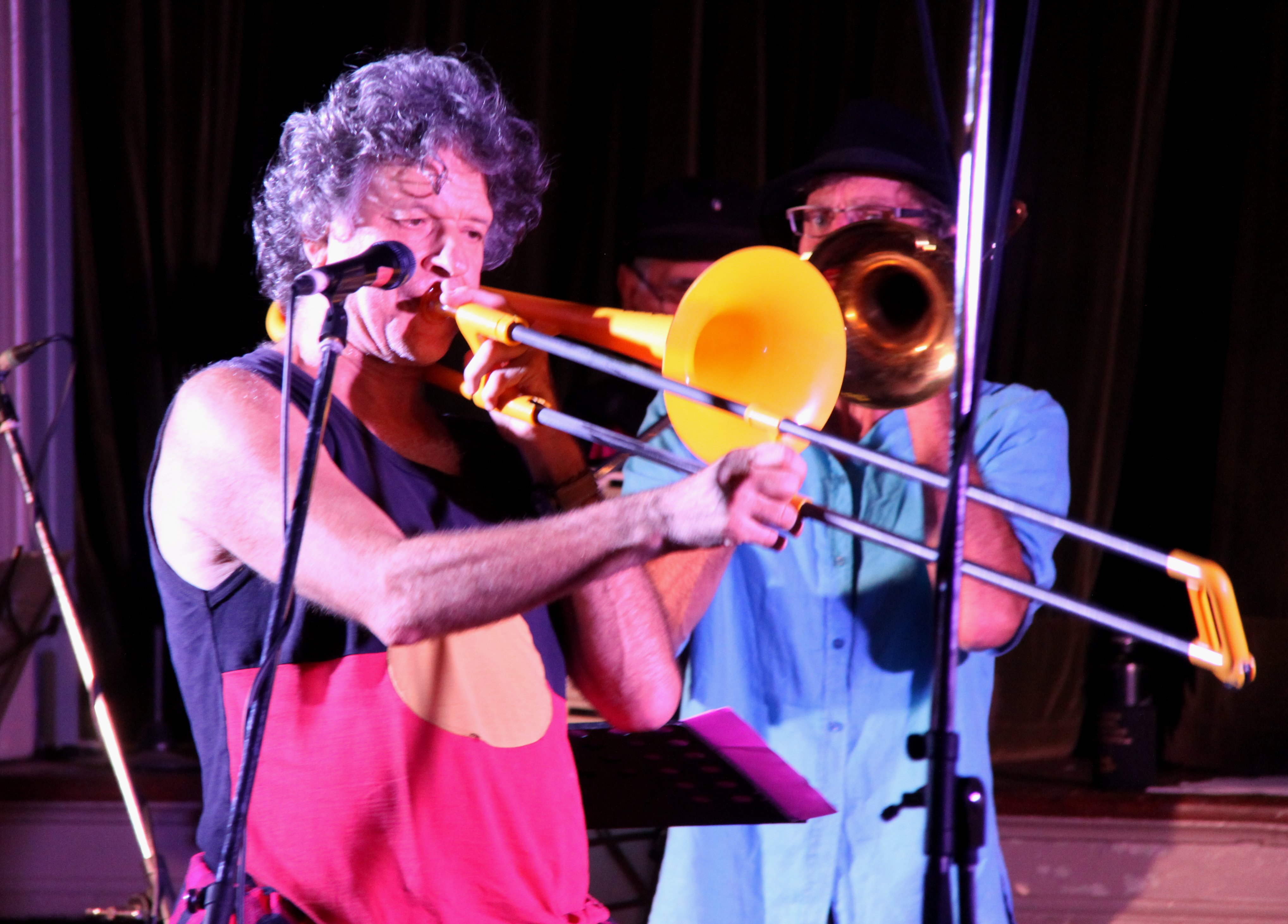 Rory McLeod, UK folk performer, on stage in Nimbin, New South Wales, Australia, 14 February 2020 (Tony Rees photograph) - image 1 of 3